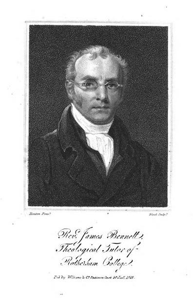 Portrait of James Bennett (1774–1862), English congregational minister and college principal. From Evangelical Magazine vol. XXVI, January.